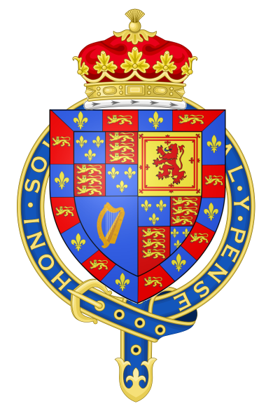 Arms of Dukes of Fitz-James in the Jacobin peerage, descendants of King James II of England